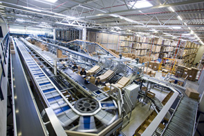 Meyer & Meyer Warehouse Osnabrueck